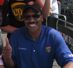 Bill Lester during an autograph session at the 2008 Rolex Sports Car Series event at Mexico City